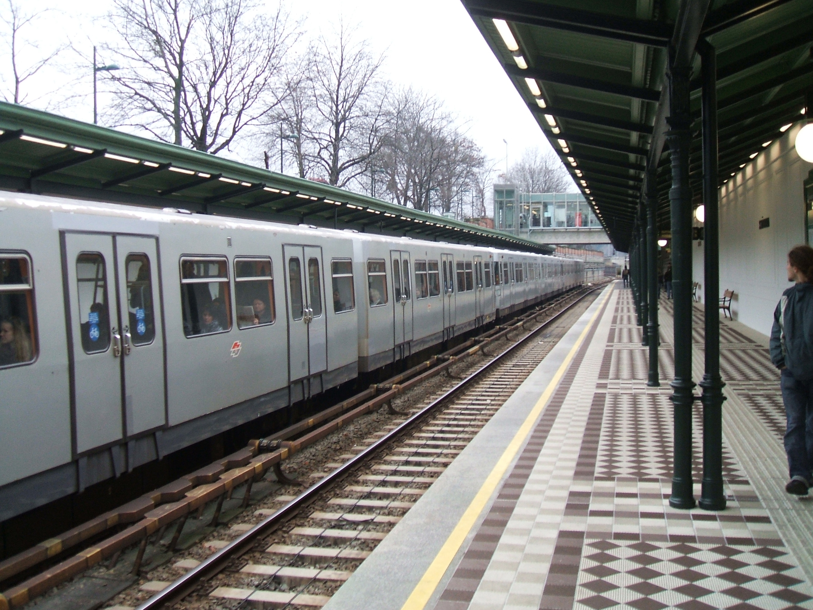 Schönbrunn station, U4, Vienna